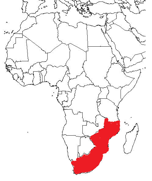 Category:Maps of Africa